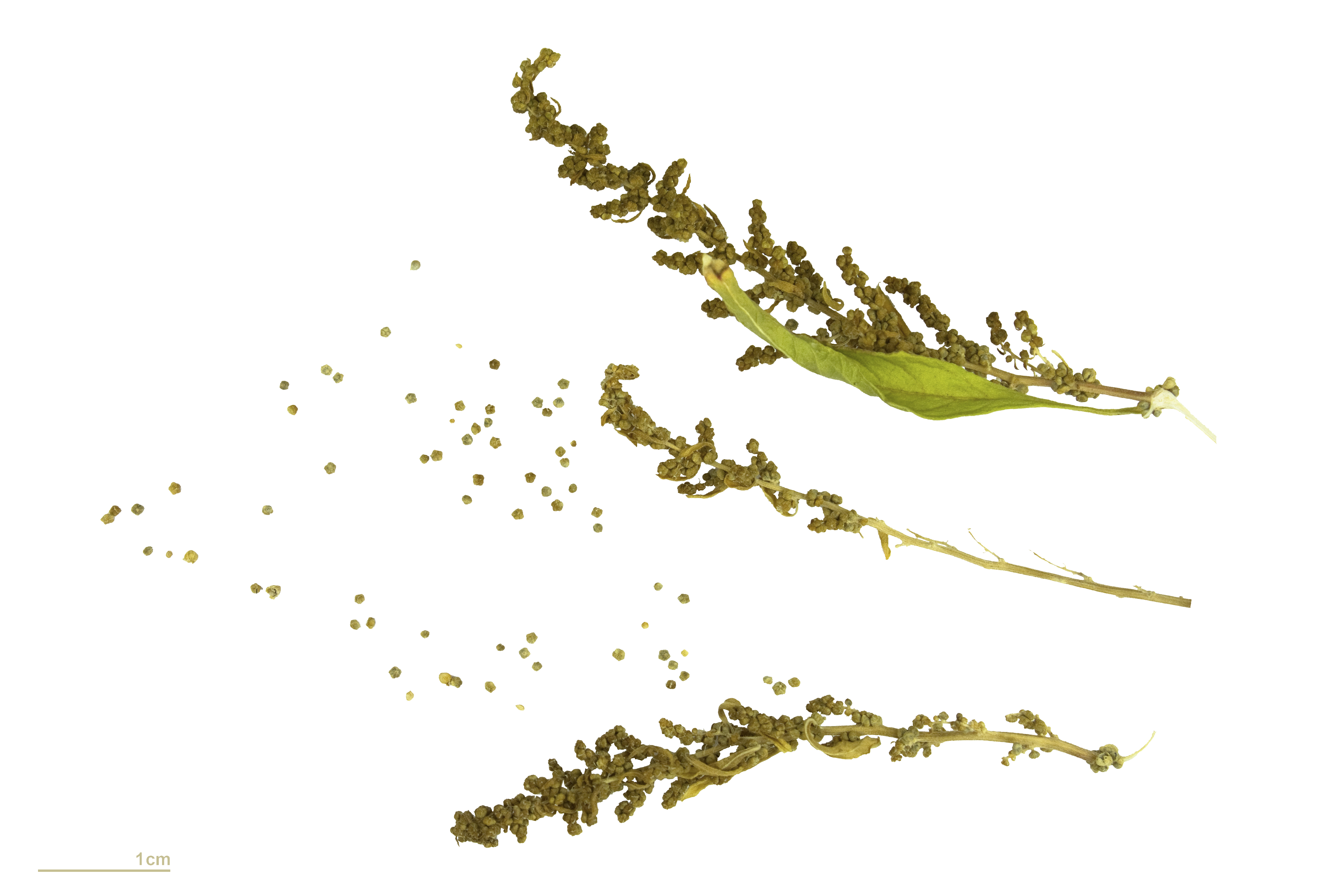 Epazote , fruits and seeds